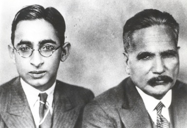 S. M. Ikram and Allama Iqbal (d. 1938), c. 1932. Frontispiece to Ikram's anthology of Persian verse by poets of Indo-Pakistan origin, Armaghan-e-Pak, from the 5th century Hijri (12th century CE) to Iqbal, first published c. 1950.